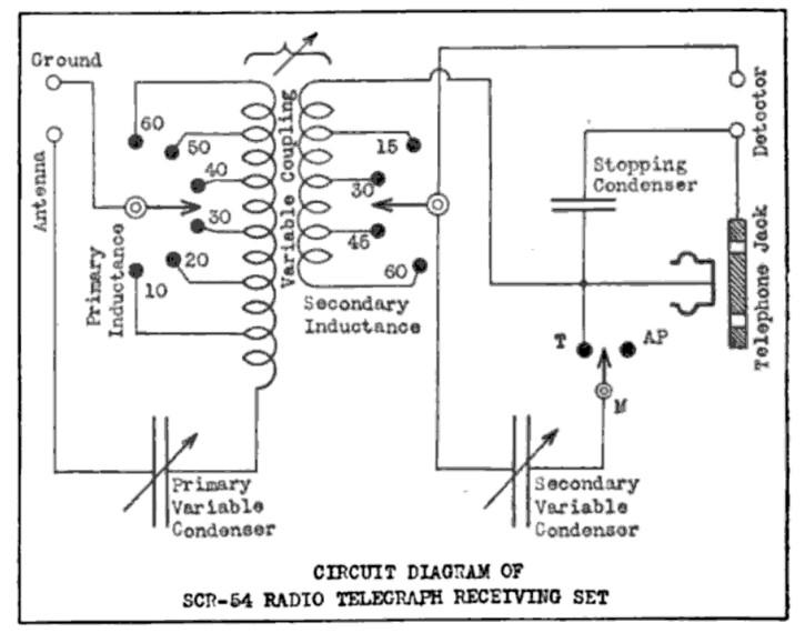 Schematic of the US Signal Corps SCR-54 radio receiver